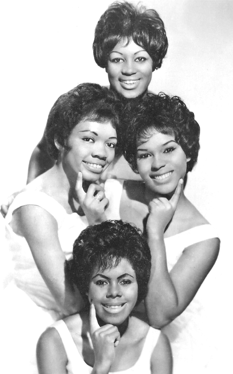 Publicity photo of The Shirelles. Clockwise from left:Shirley Owens, Beverly Lee (top), Addie "Micki" Harris, and Doris Jackson.